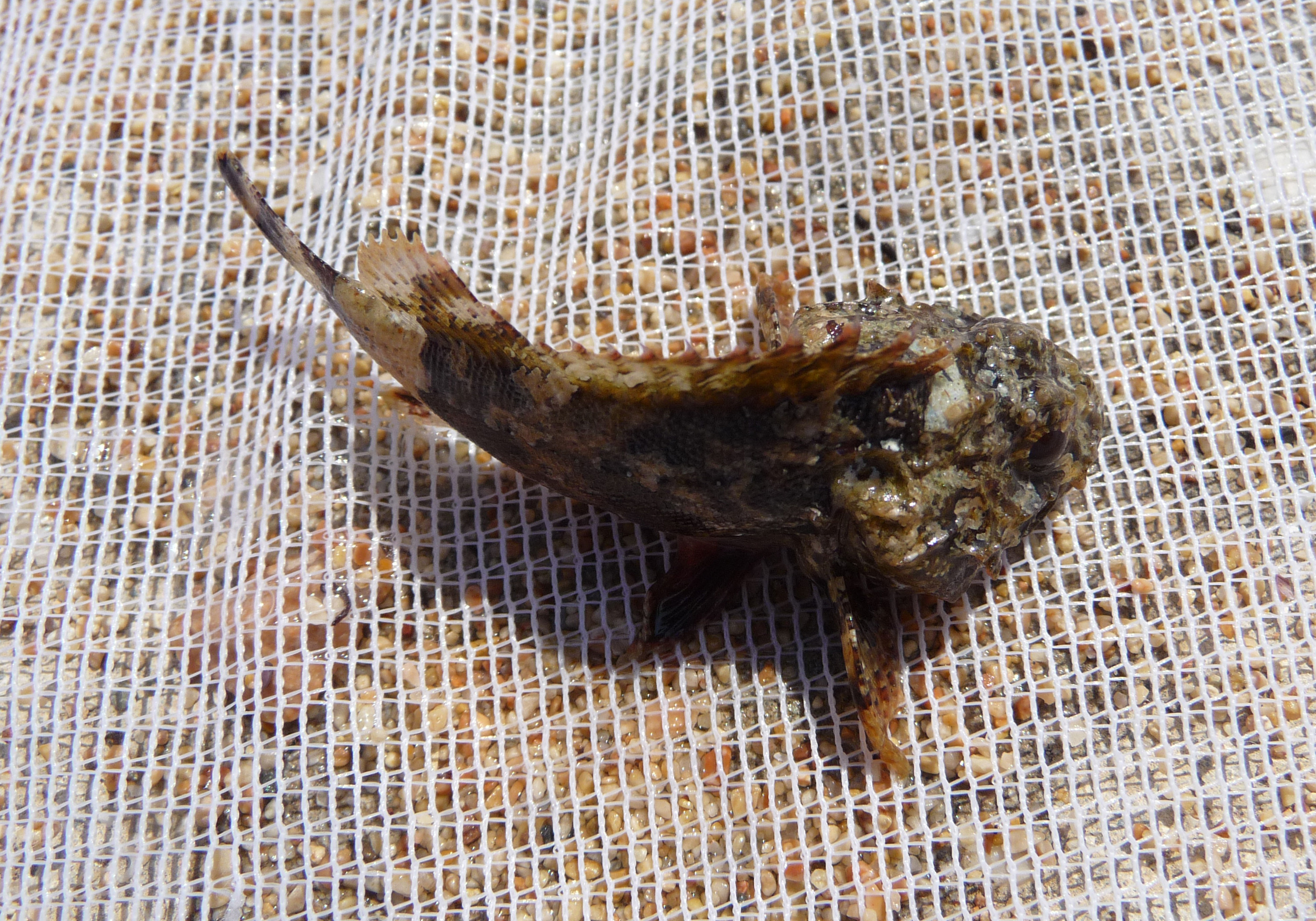 Black scorpionfish Scorpaena porcus. This fish has been caught in Black sea. After very short photosession the fish was released back to the sea.